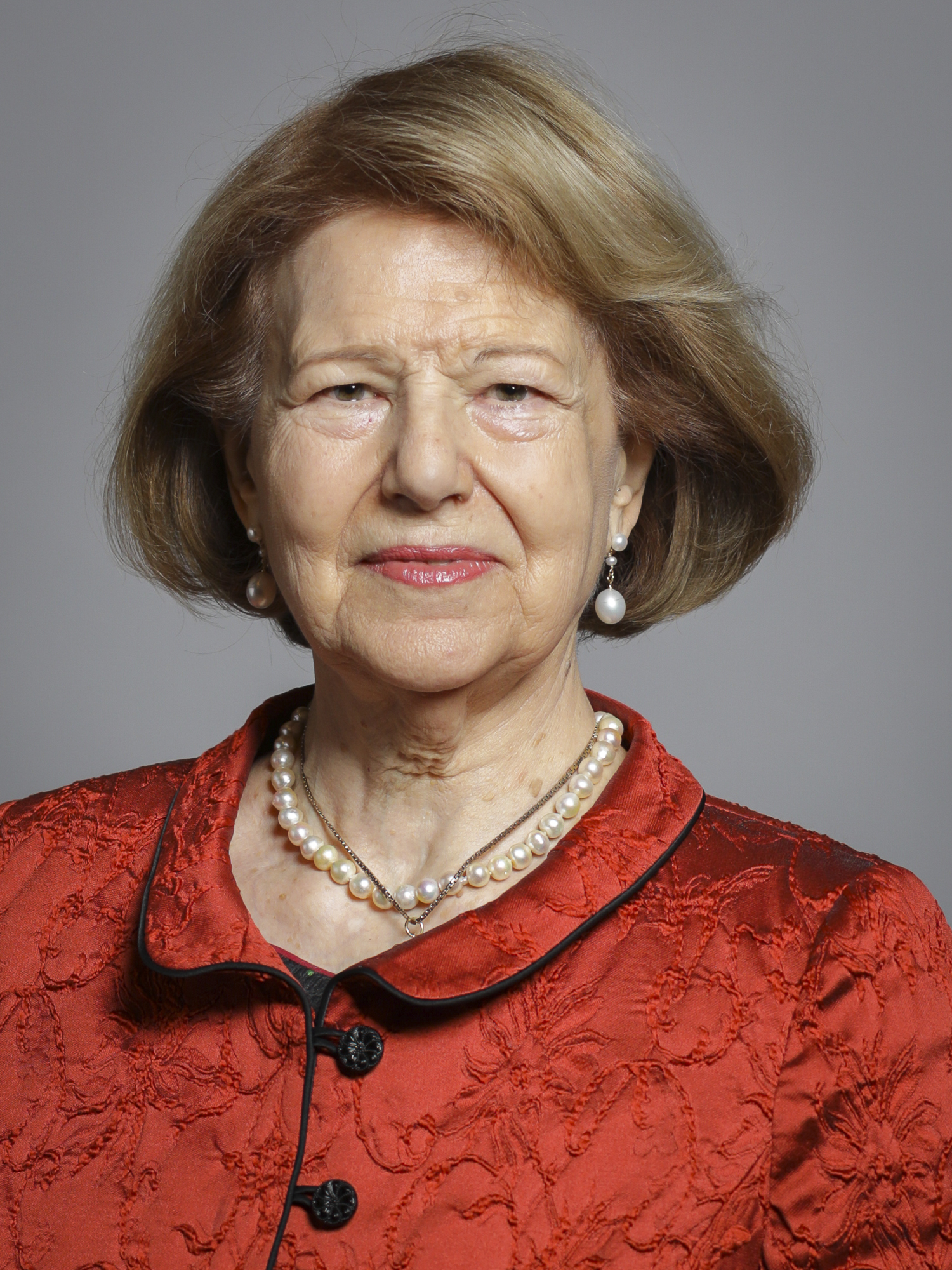 Official portrait of Baroness Nicholson of Winterbourne 3×4 portrait of Baroness Nicholson of Winterbourne